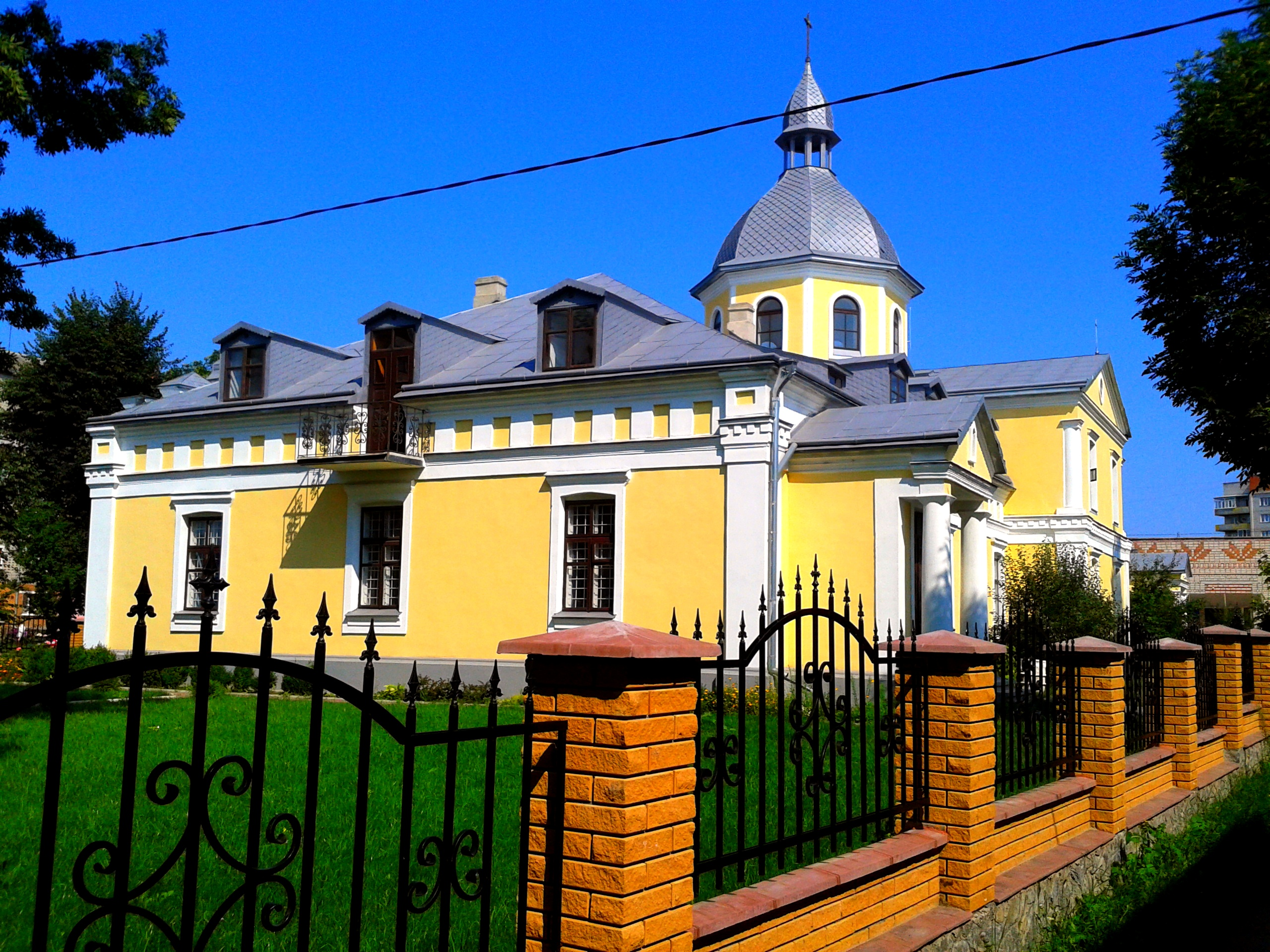 Wikimedia Greek Catholic Church Town of Bar Vinnytsia Region State of Ukraine Photograph by Viktor O. Ledenyov 26072014 (19)